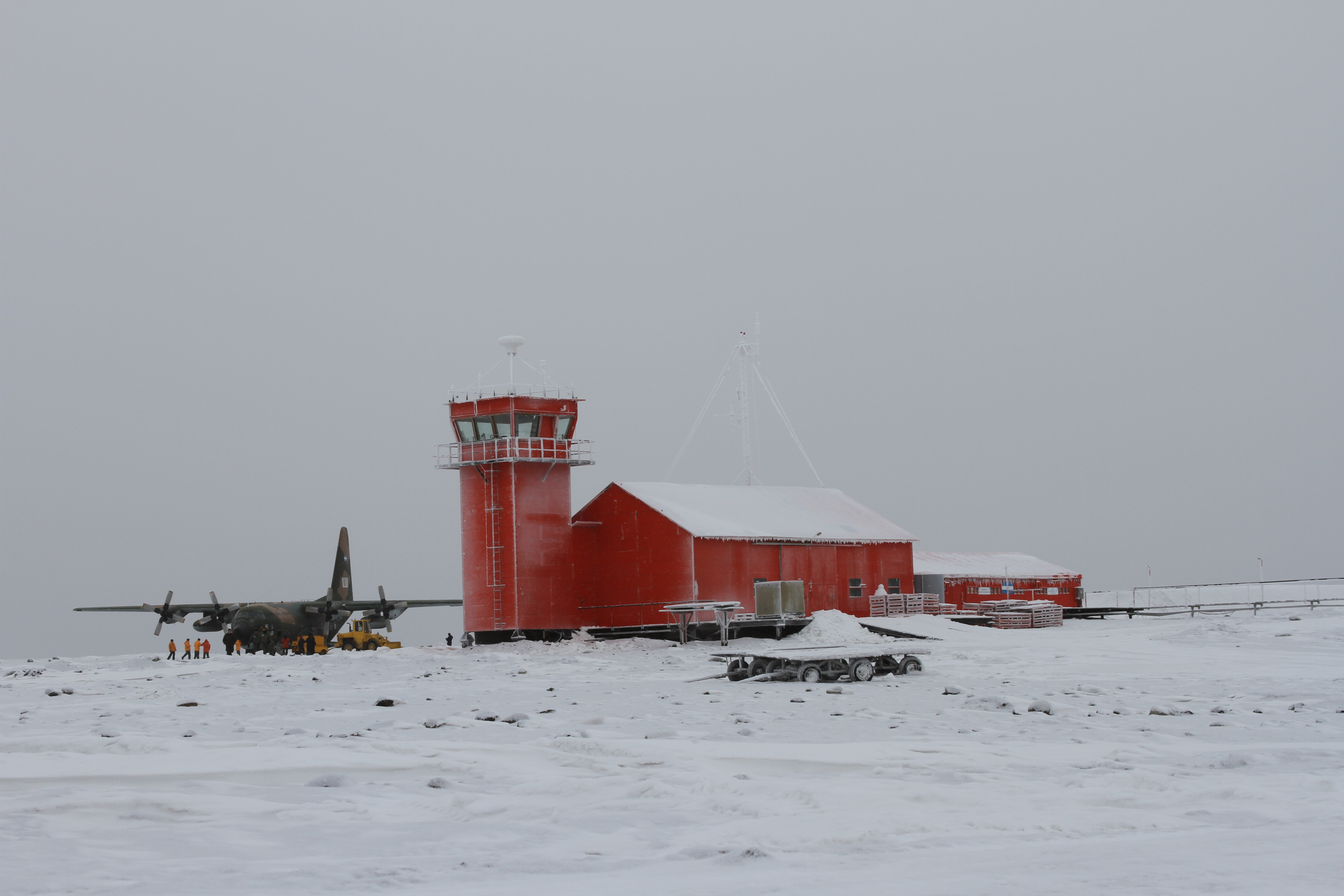 Marambio Base, you can see a C-130 Hércules from the Argentine Air Force.